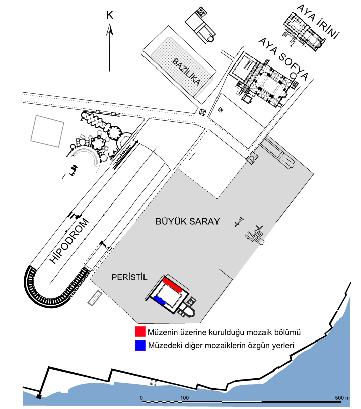 Location of the Great Palace mosaics in ancient Constantinople